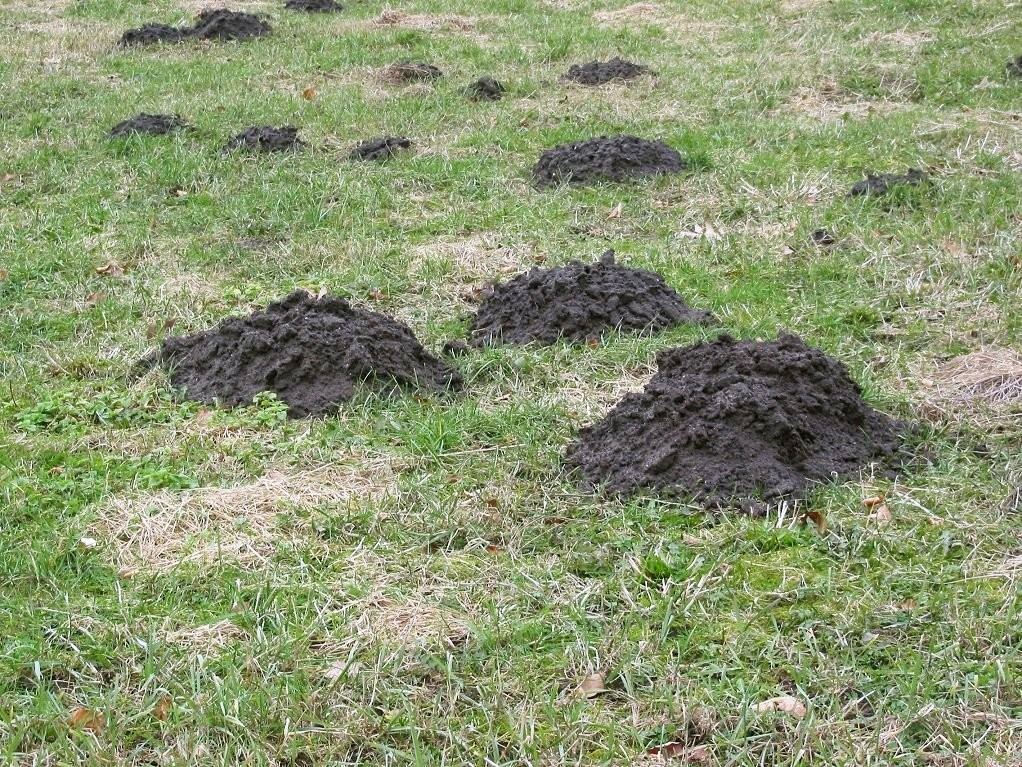 mole hills (molshopen); European Mole, Talpa europaea